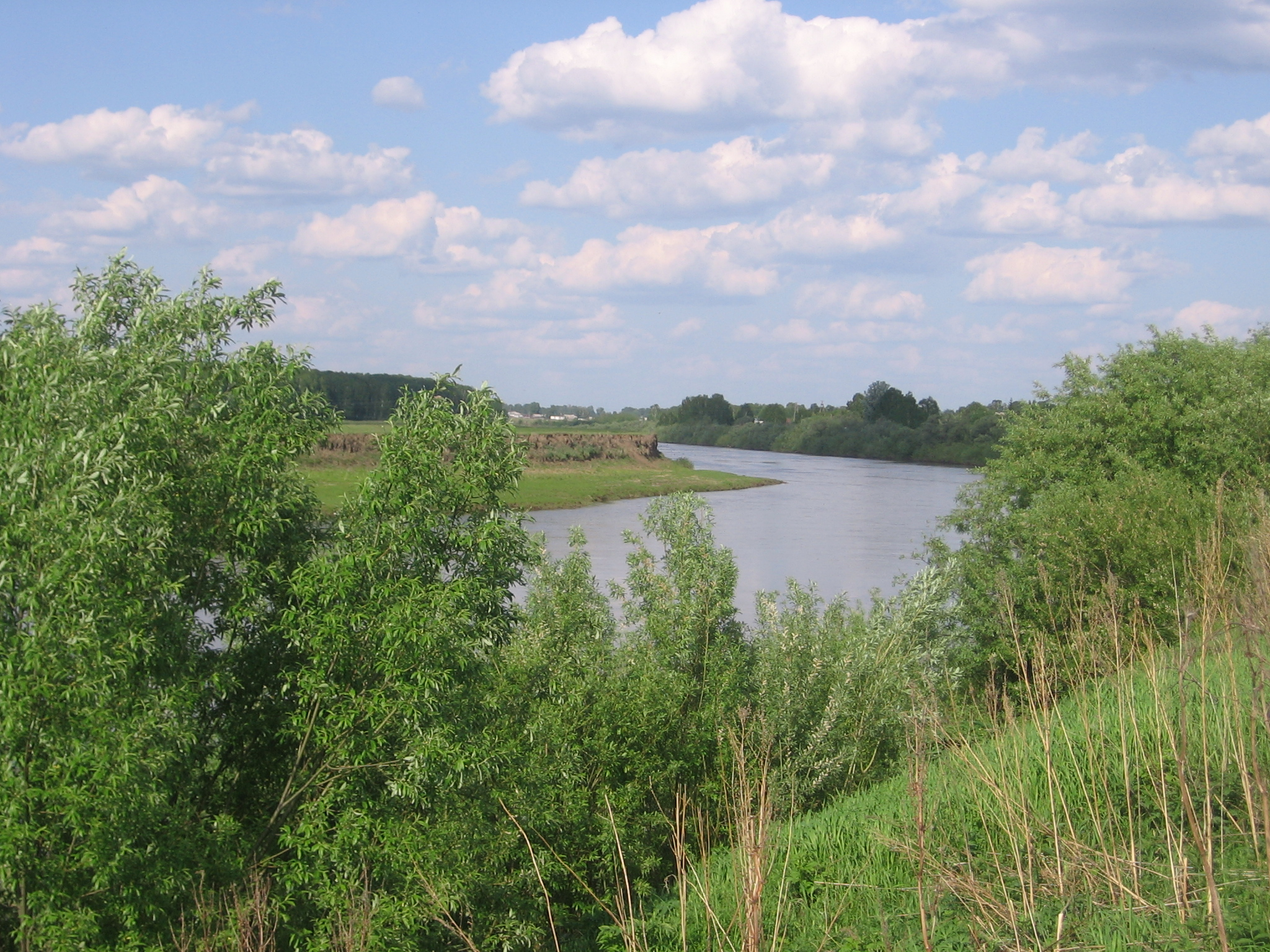 Inya river (Ob tributary) near Sarapulka village (Moshkovo district, Novosibirsk oblast)